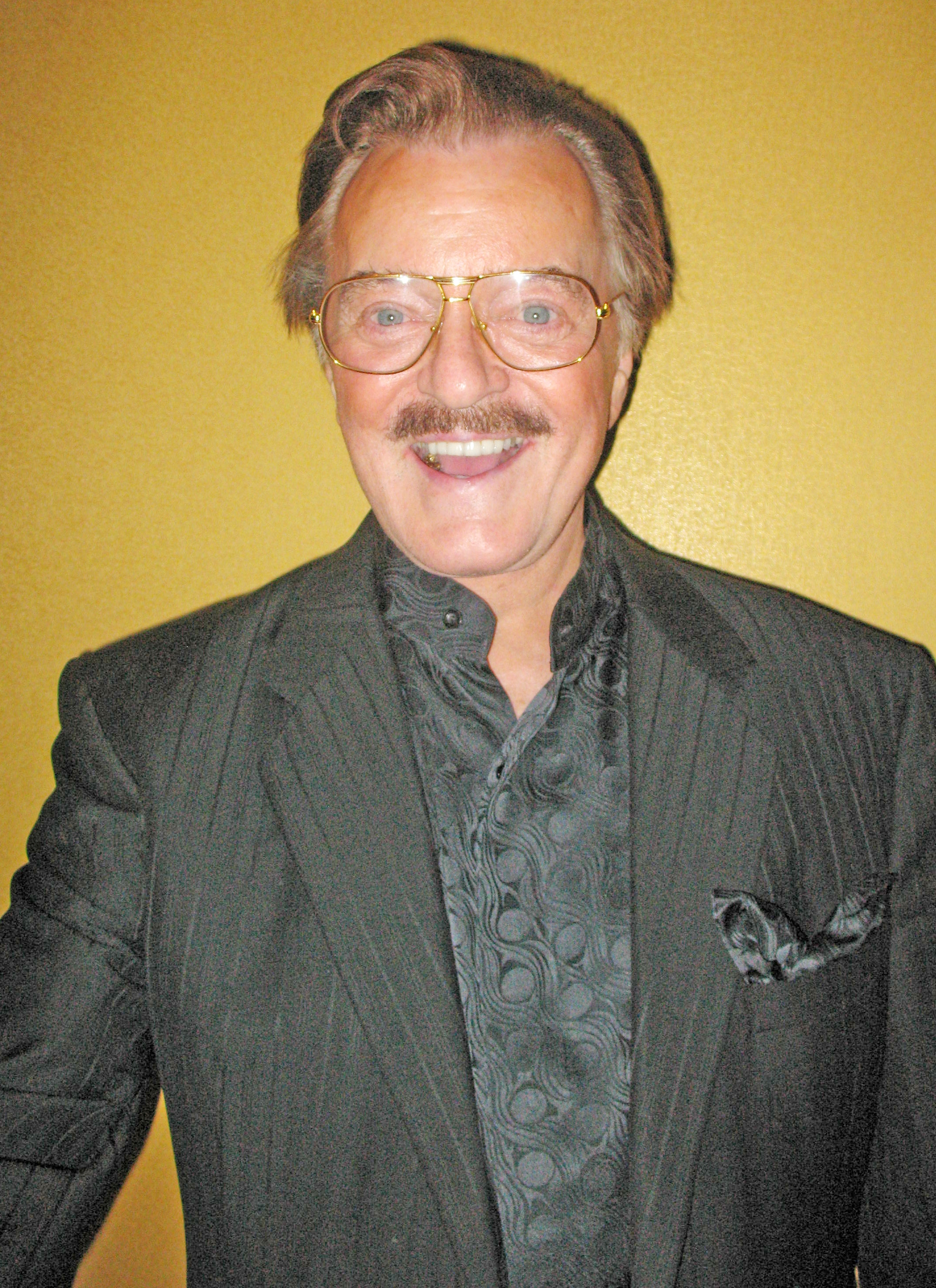 Robert Goulet at the Golden Nugget Casino in May 2007